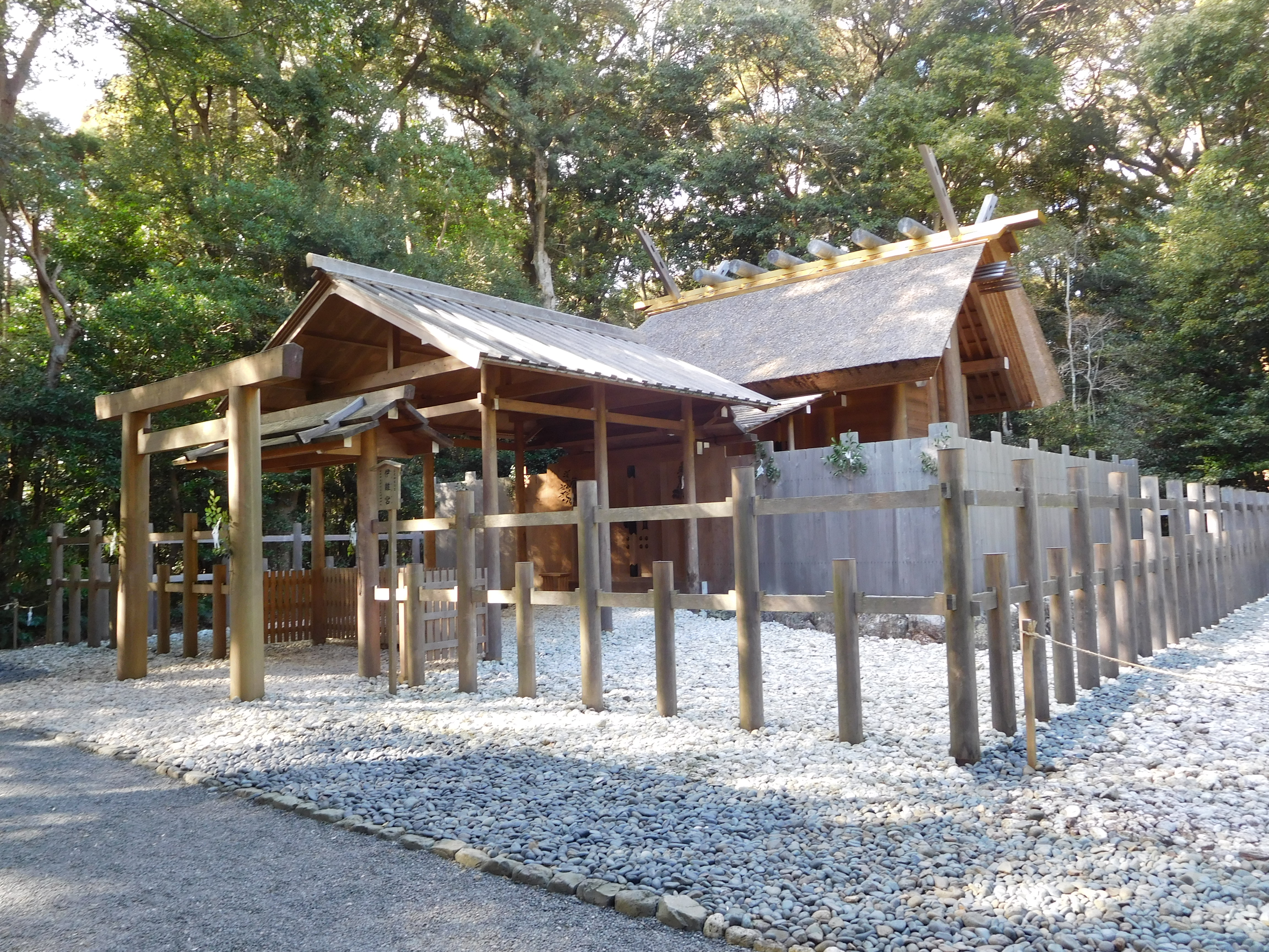 This is the Izawa-no-Miya Shrine in Shima, Mie, Japan.